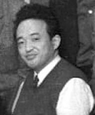 Tan Onuma (1918–96)